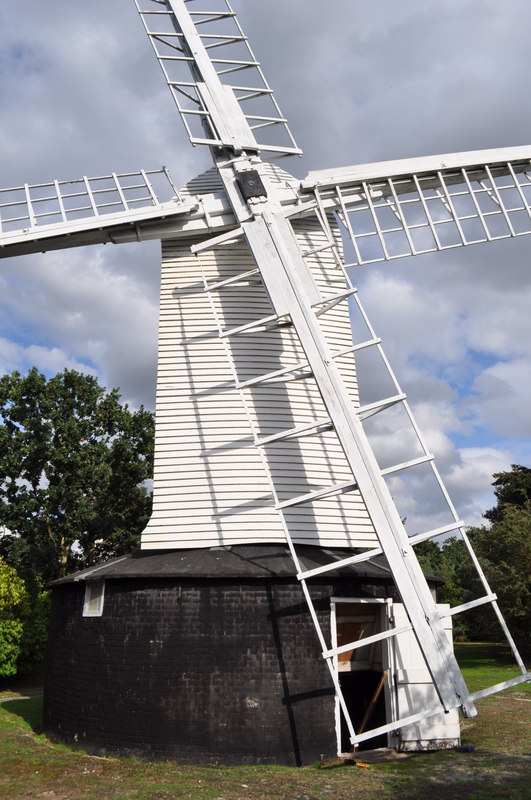 Holton Mill, Data from Geograph: Description: A view of the buck and two storey roundhouse. The sails were two common (with cloth draped over) and two spring (the main one photographed here but not a complete setup). The spring sails still required the miller to cease milling... more ICBM: 52.342550595672, 1.5256249592401 Location: (about 0 km from) near to Holton, Suffolk, Great Britain.